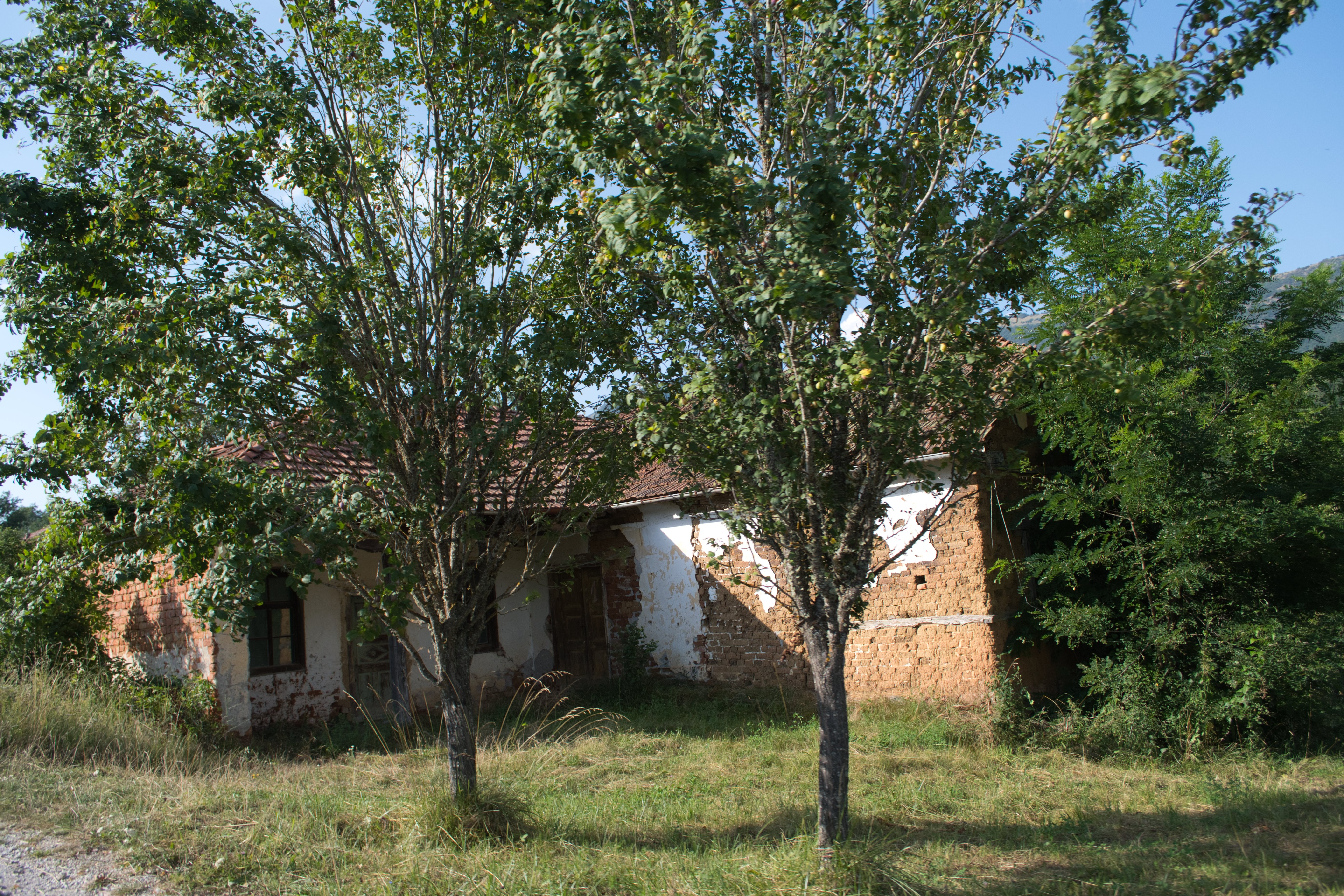 An old house in the village of Nerezi